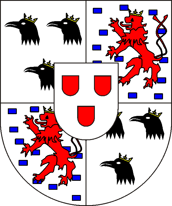 coats of arms of the lords of Rappoltstein (Ribeaupierre). 1,4: lordship of Hoheneck; 2,3: lordship of Geroldseck; heart: county of Rappoltstein